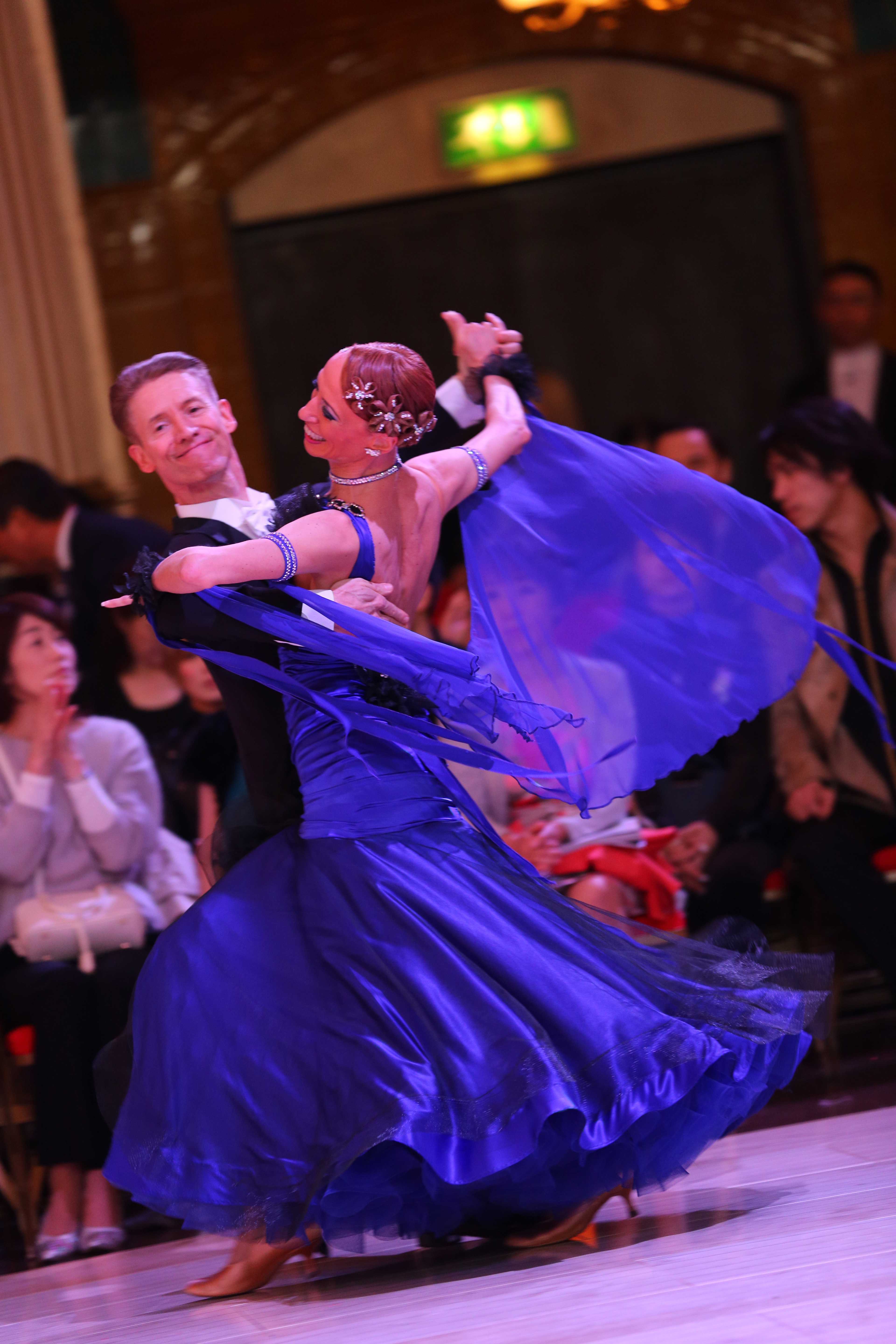 during their performance in the famous Blackpool Festival, UK